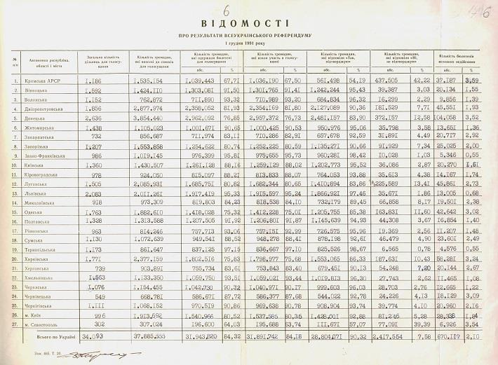 Information bulletin on results of the all-Ukrainian referendum of December 1, 1991.